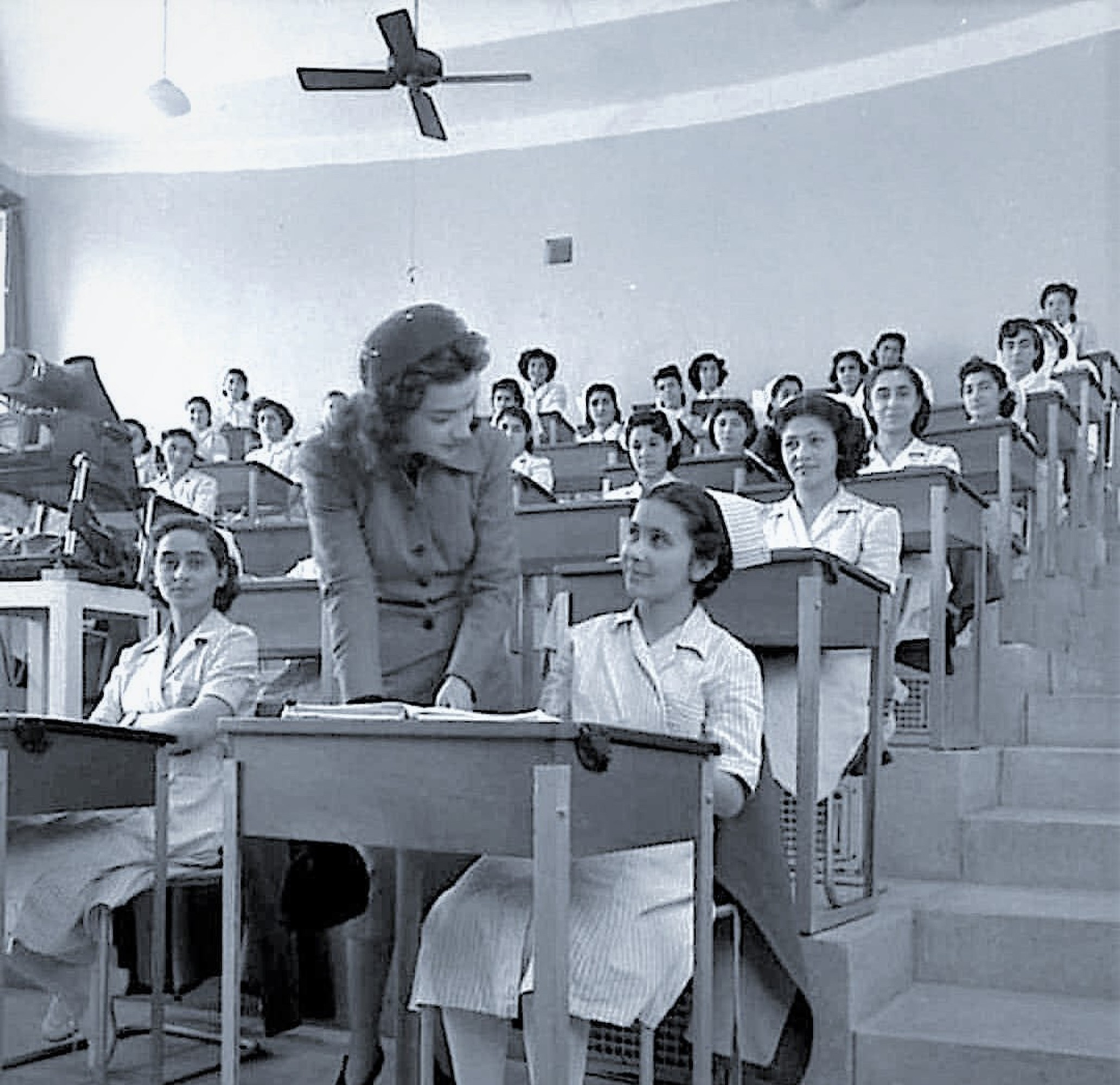 First 1960s years, Ashraf Pahlavi and Student nurses in Tehran.